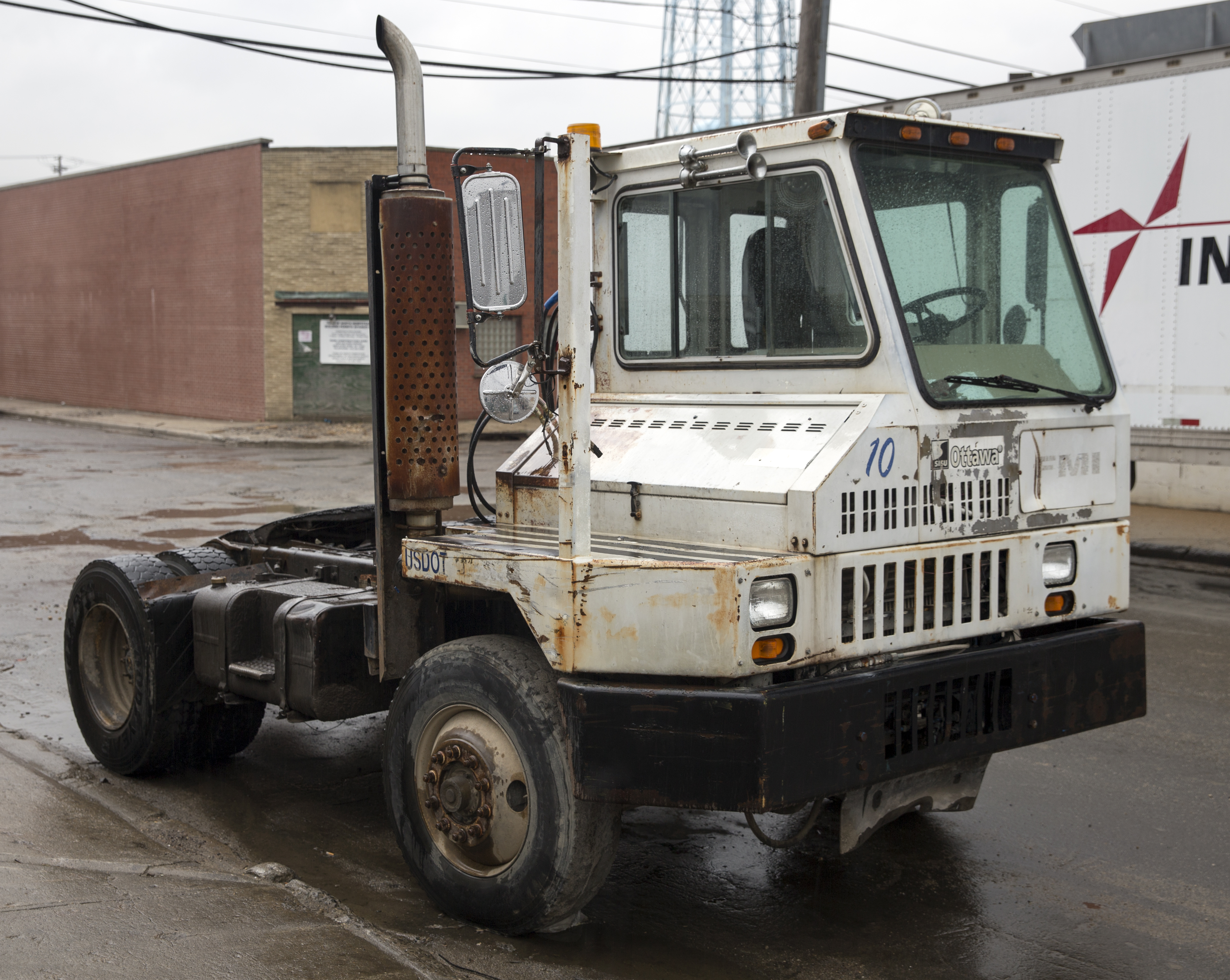 A Sisu Ottawa terminal tractor. These briefly received both Sisu and Ottawa badges, before Kalmar took over. Not a lot of articles about terminal tractors online, for some reason...